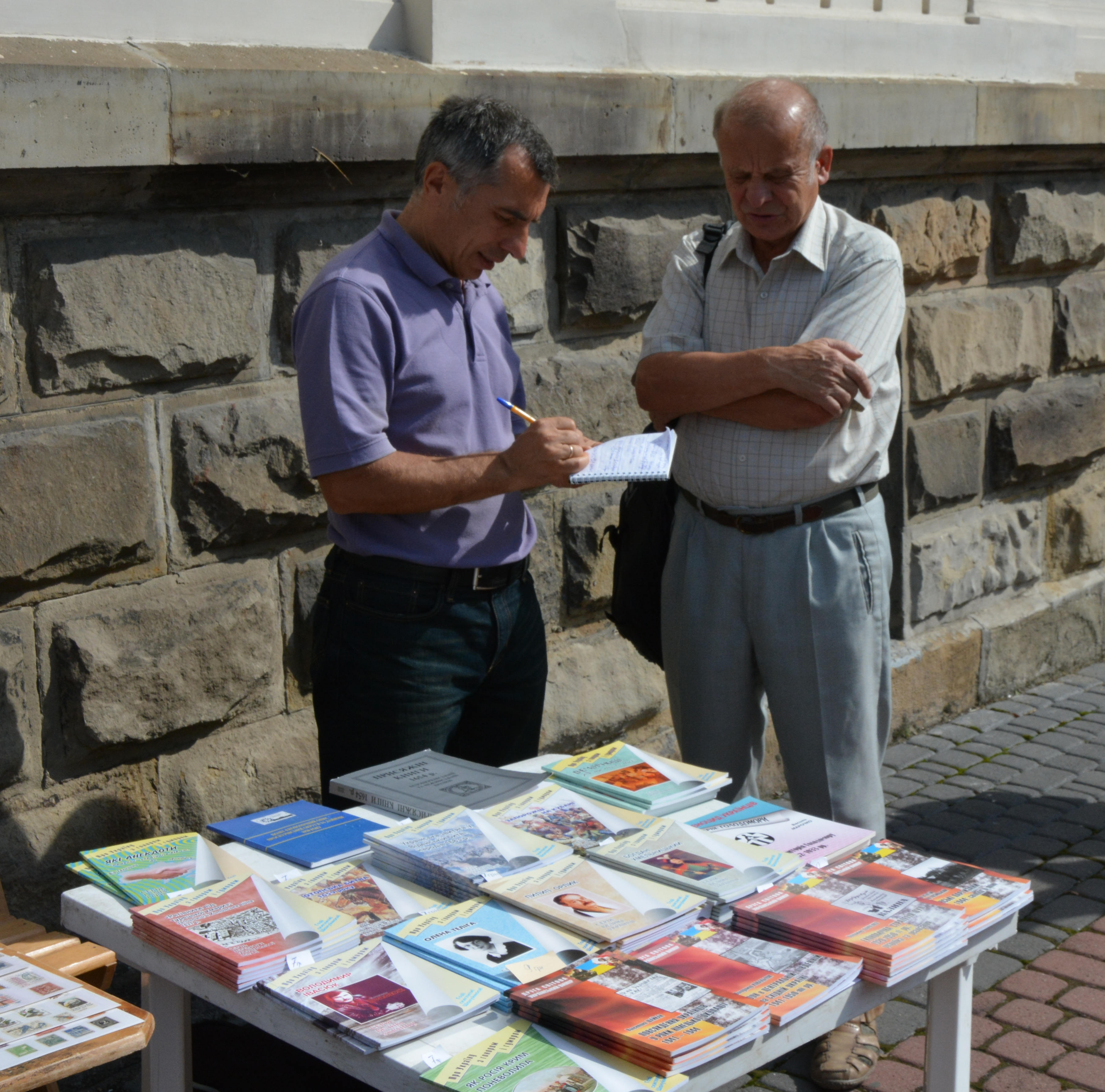 Victor Anatoliyovych Brekhunenko, Ukrainian historian, doctor of history science, the author of a range of publications and books with subject area of Cossacks’ history in Ukraine, at Lviv Publishers’ Forum-2014